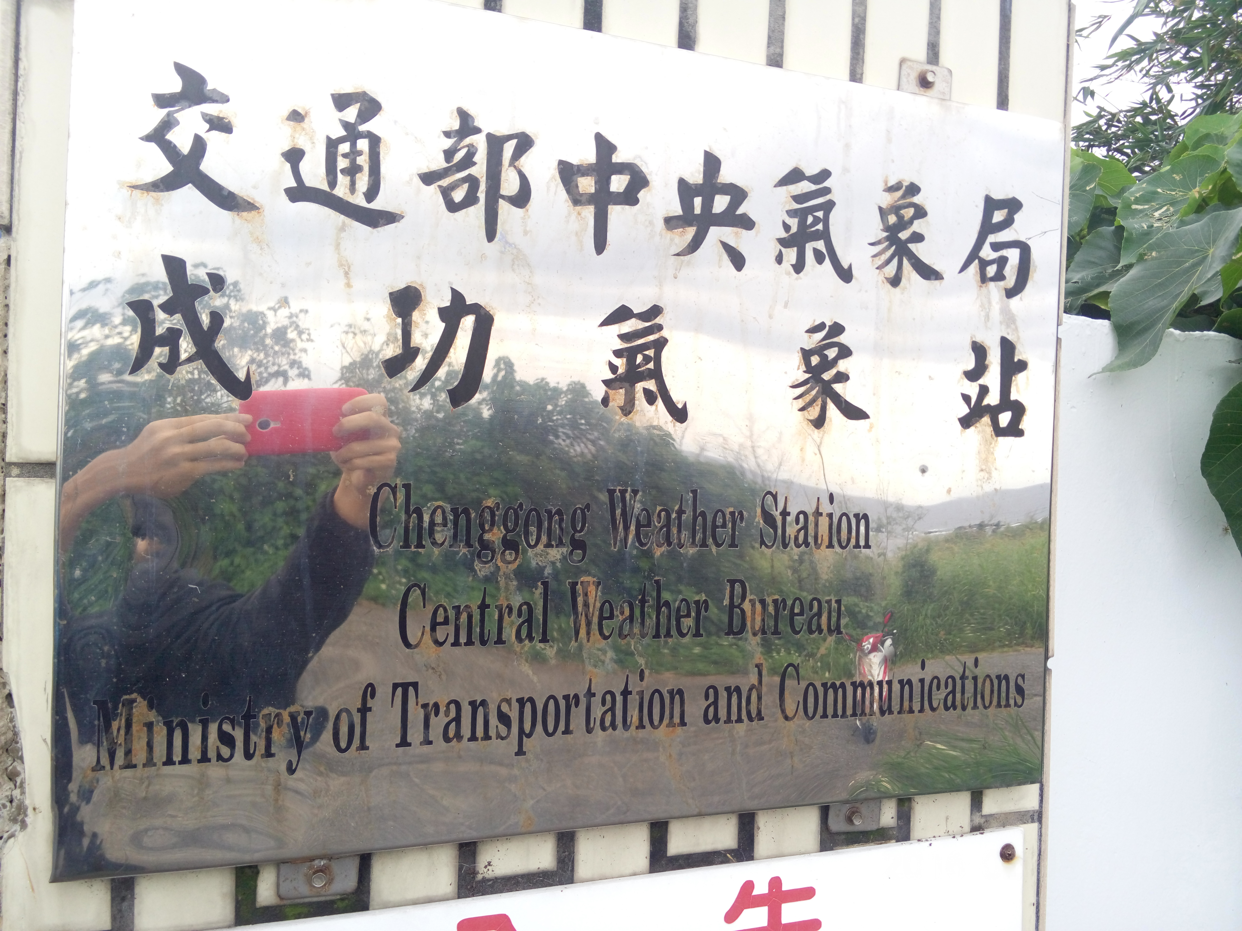 Cheng-Kung Weather Station